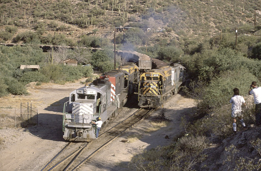 The first true Combat Railfan trip, watching the Copper Basin Railway at Ray Junction in Kearny, Arizona